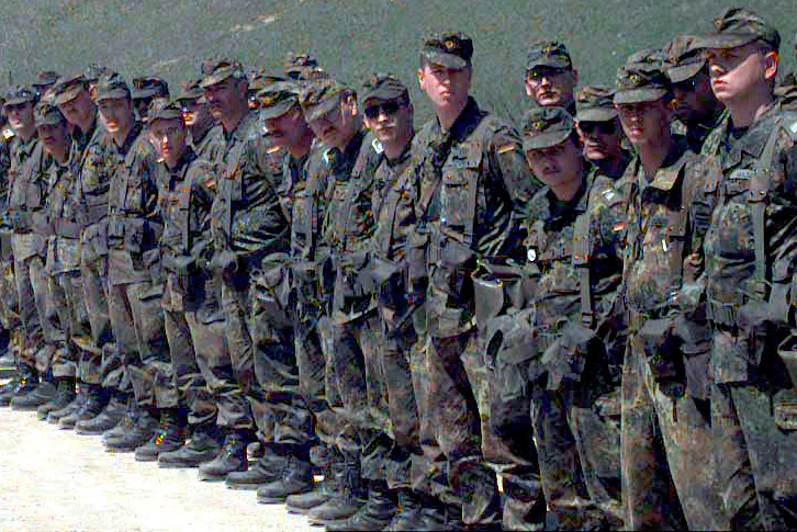 An audience of soldiers and media line the street in the afternoon of the 21st of April, 1996, in the small town of Visoko, Bosnia, to hear Lieutenant Colonel Weigold, a German Army Engineer, speak to them concerning the opening of the Visoko Bridge. The Visoko Bridge was rebuilt by German and Romanian Army Engineers during the months of March and April, 1996. Before the rebuilding of the bridge, the surrounding area had to be cleared of mines that had been laid after its destruction. The old Visoko bridge was destroyed in the beginning of the confrontations between Bosnian Muslims and Bosnian Serbs.